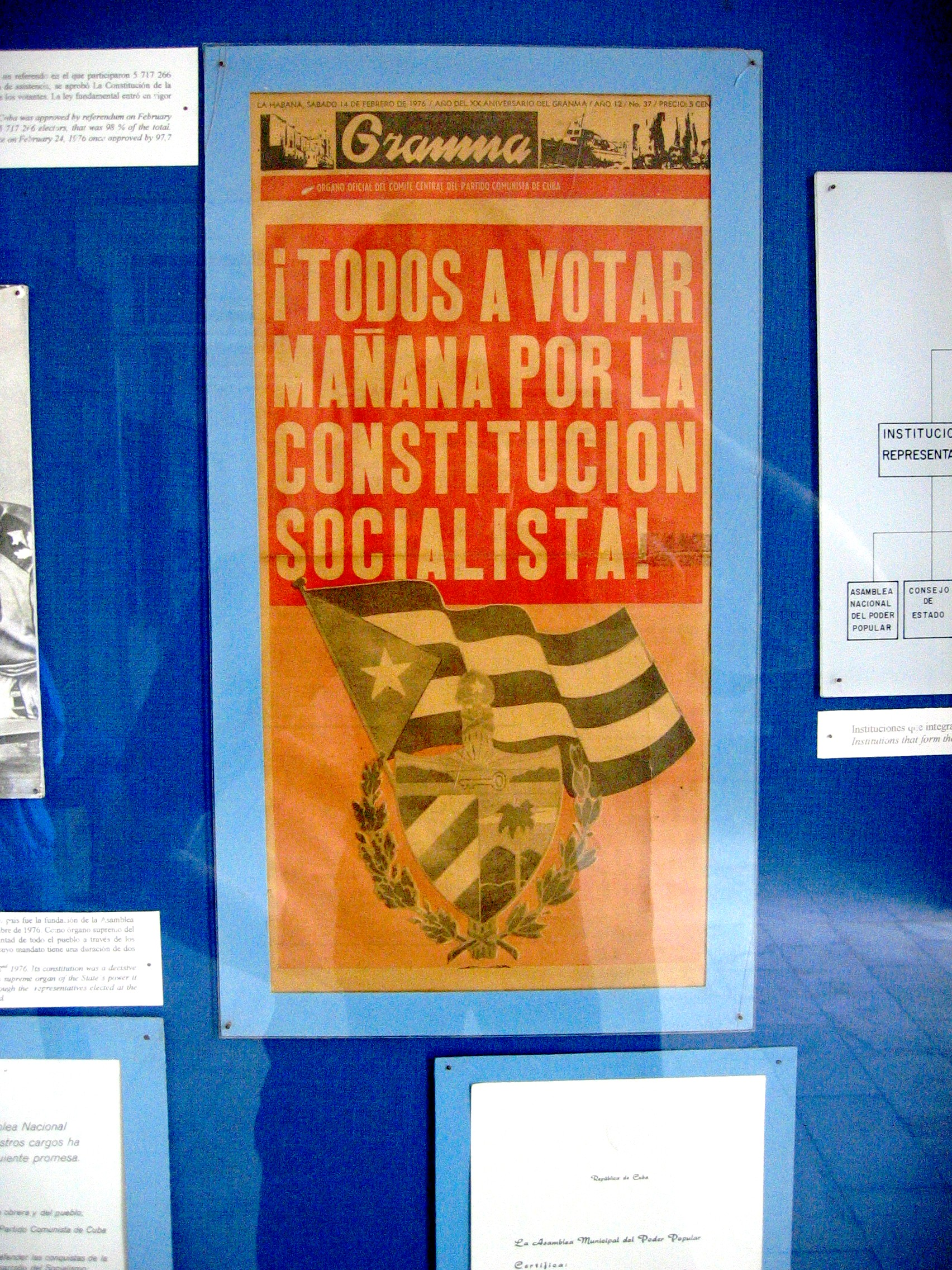 "All will vote tomorrow for the socialist constitution!"